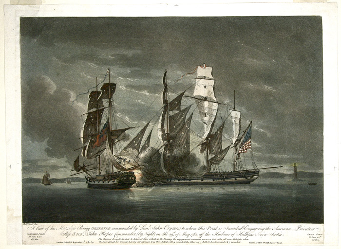 A View of His Majesty’s Brigg Observer, Commanded by Lieut. John Crymes (to whom this print is inscribed) Engaging the American Privateer Ship Jack, John Ropes (commander), by Night on the 29th of May 1782, Off the Harbour of Hallifax, Nova Scotia”. Aquatint by Robert Dodd, 1784